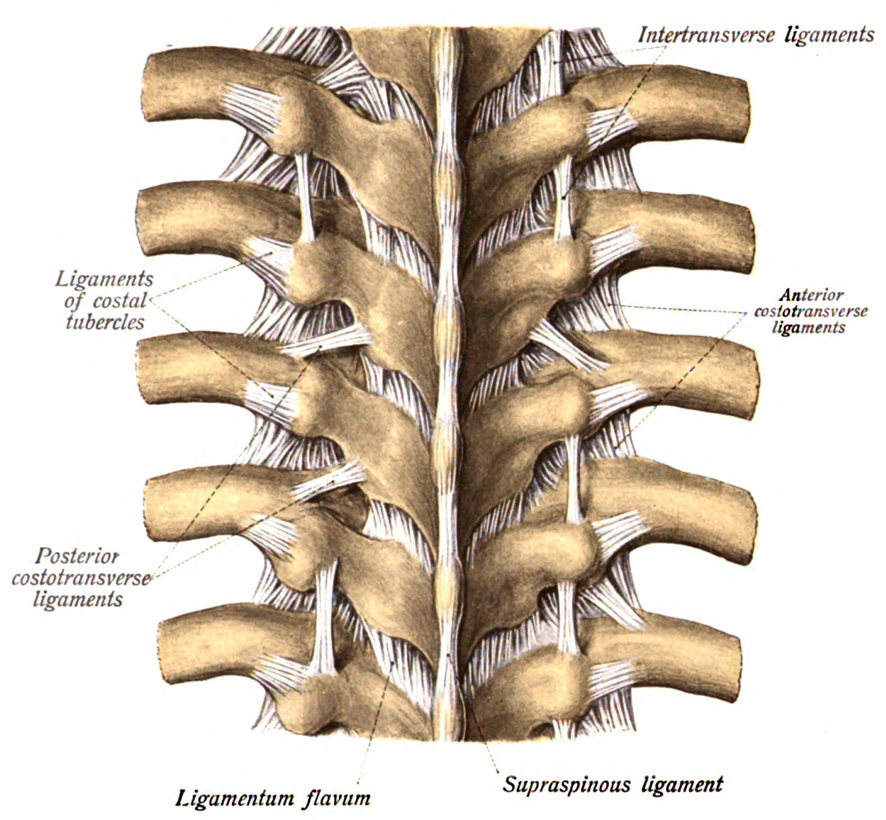 An illustration from the 1909 edition of Sobotta's Atlas and Text-book of Human Anatomy